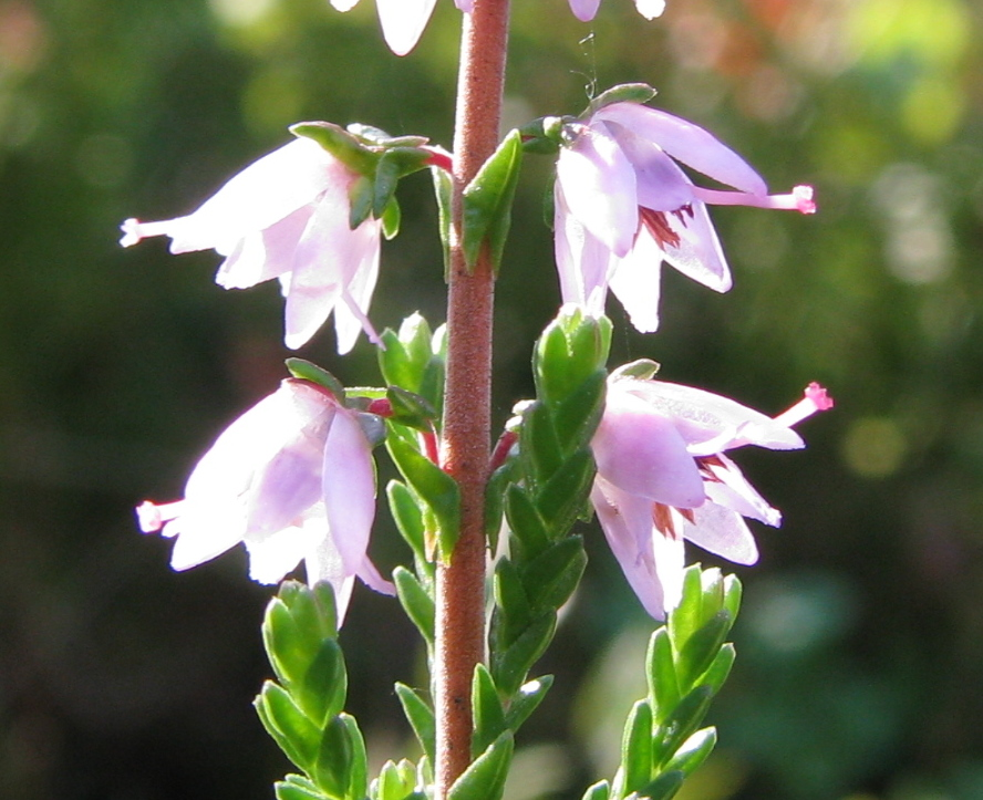 Calluna vulgaris closup. Närbild av ljung-blommor.